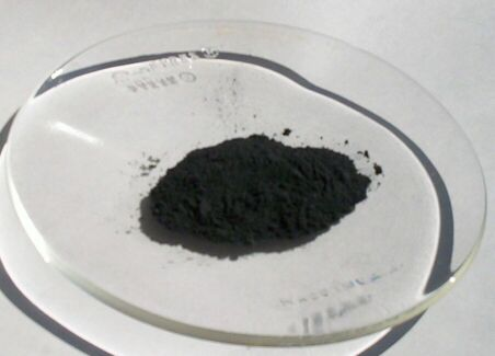 A sample of Manganese(IV) oxide. Photograph by User:Walkerma, March 2005.